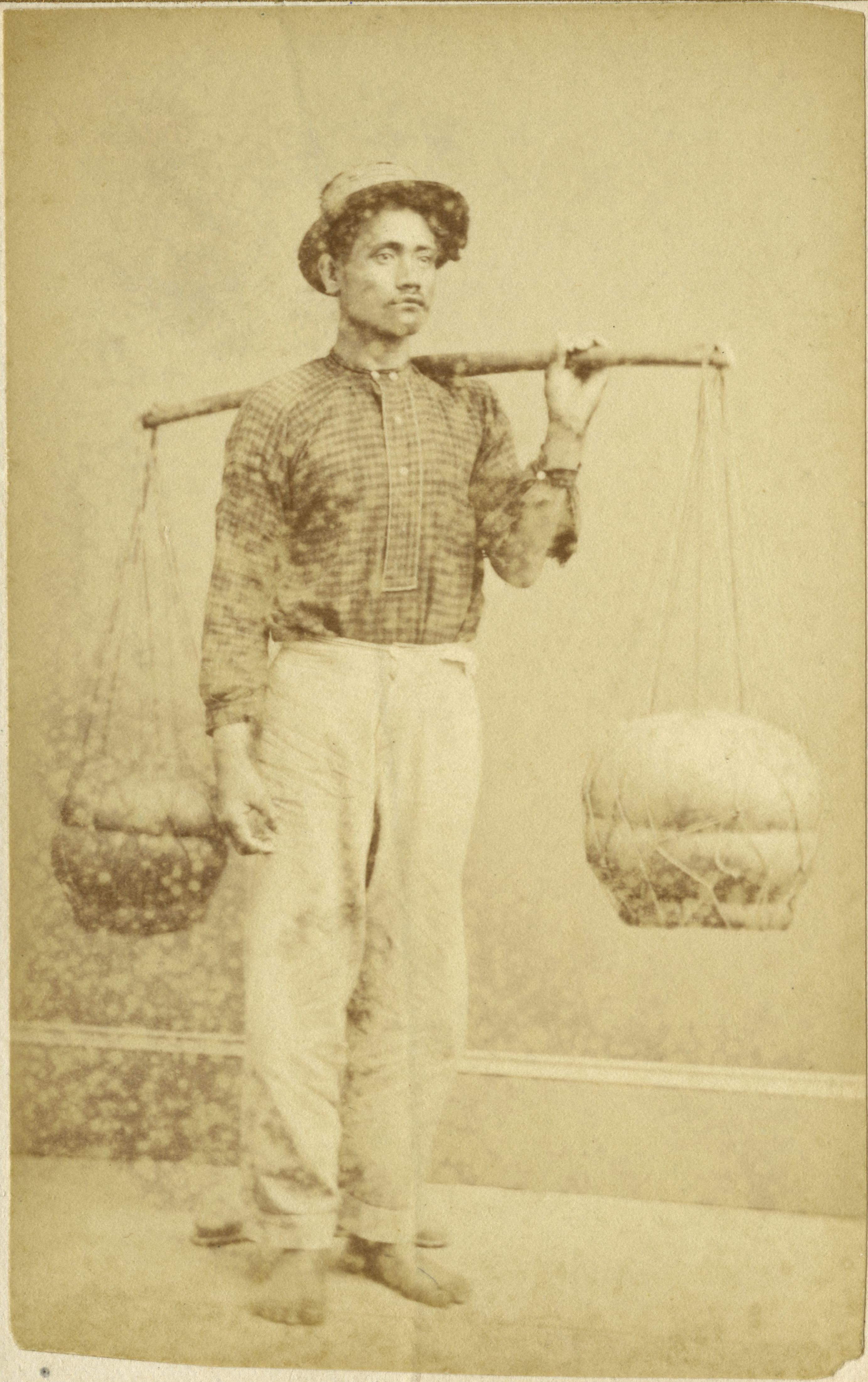 Inscriptions: Inscribed - Verso - Hawaiian poi dealer. Quantity: 1 b&w original photographic print(s). DC Rights: Not restricted Part of: Haast family :Photographs / Portraits of scientists Format: 1 b&w original photographic print(s), Albumen photoprints, Cartes de visite, Portraits, Single photograph.